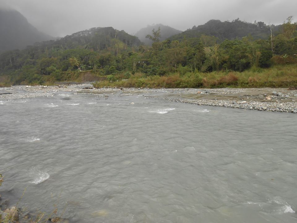 Buarahuin river, East Timor